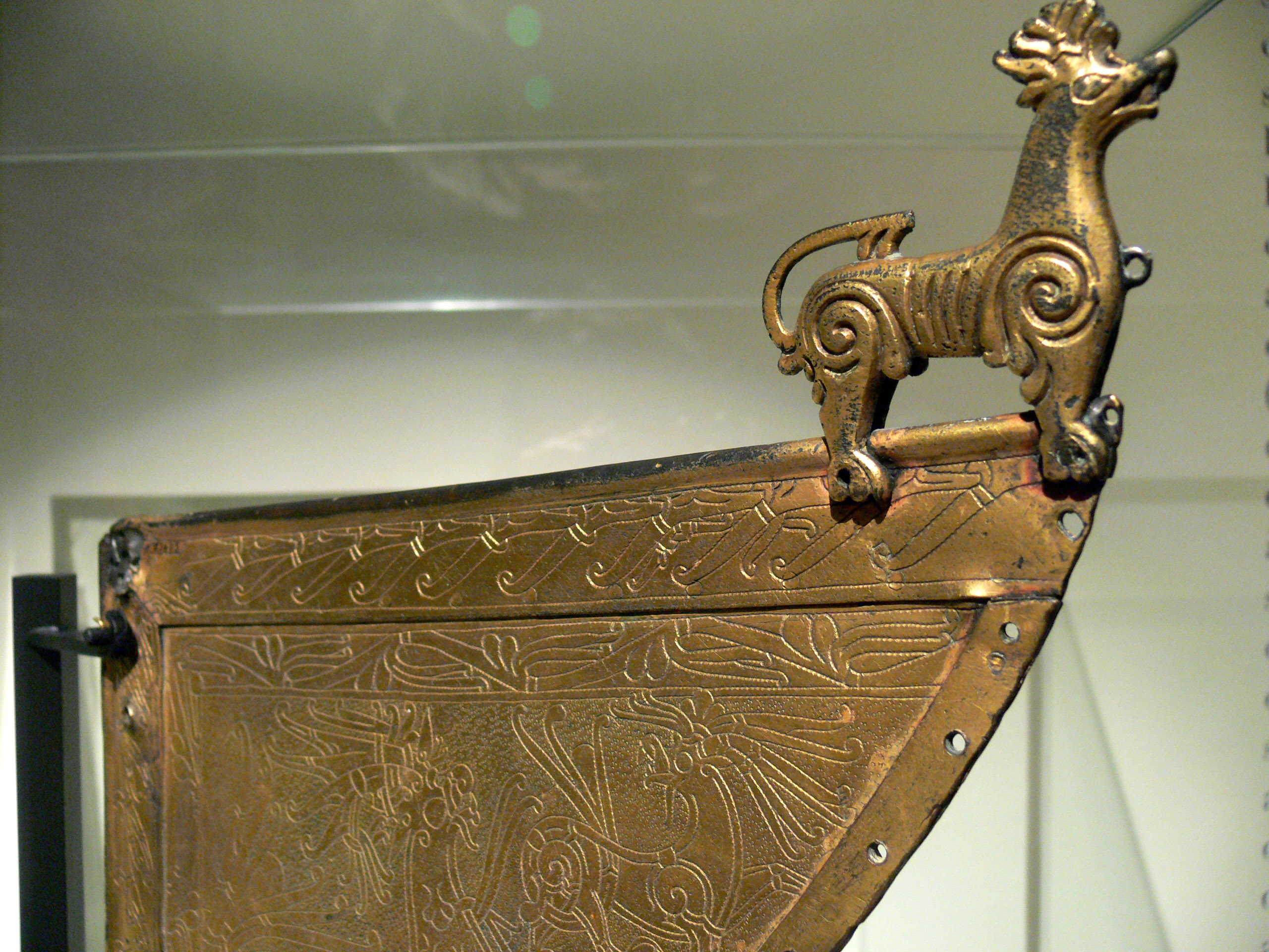 Metal engraved vane from the Viking Age. Photographed at the Exhibition: Celts and Scandinavians, artistic encounters, 7th-12th century, 1st October 2008 - January 12, 2009, Musée National du Moyen-Âge - Thermes et hôtel de Cluny (photography allowed in the museum and the exhibition, with a restriction: no flash).